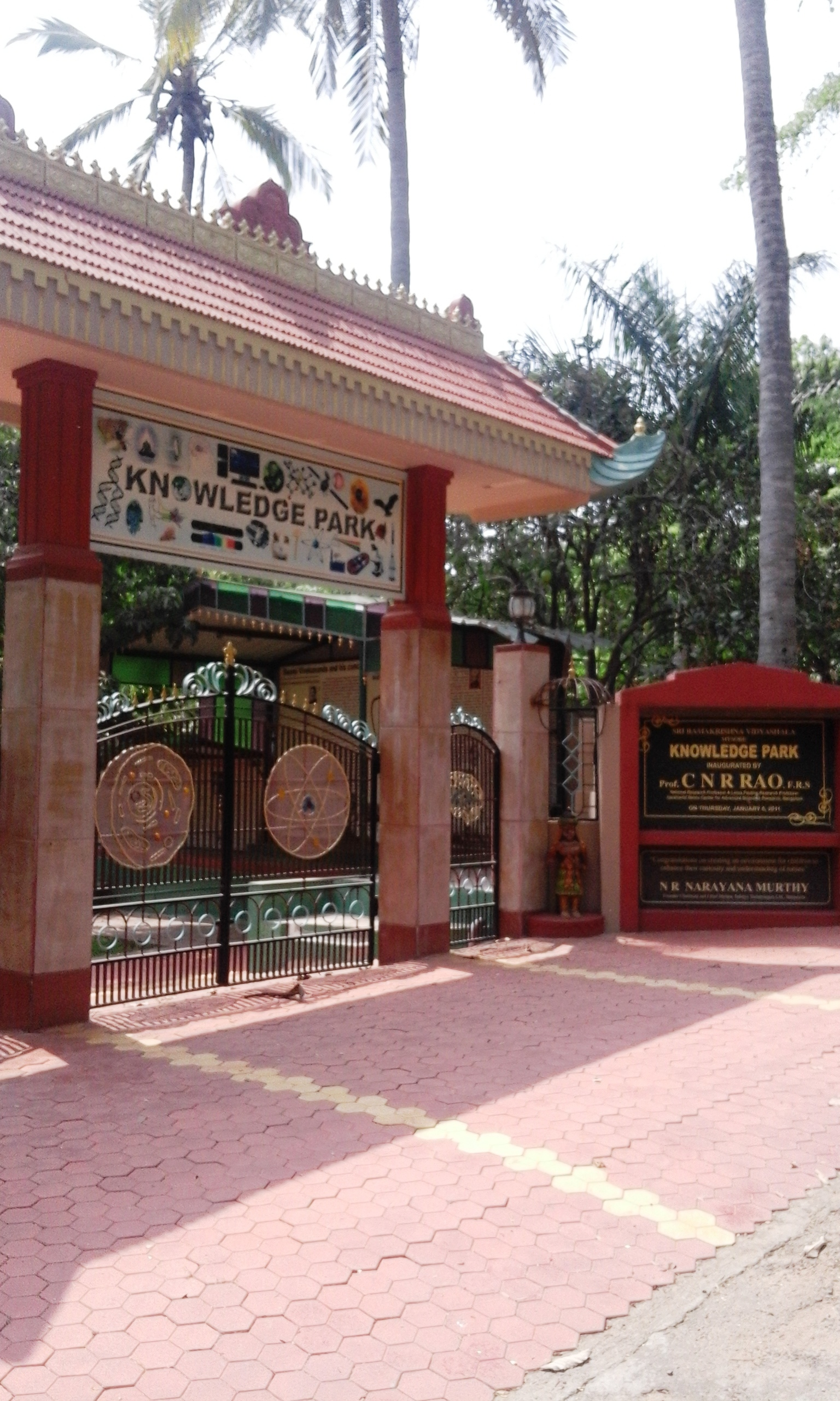 Mysore city, Karnataka state, India.